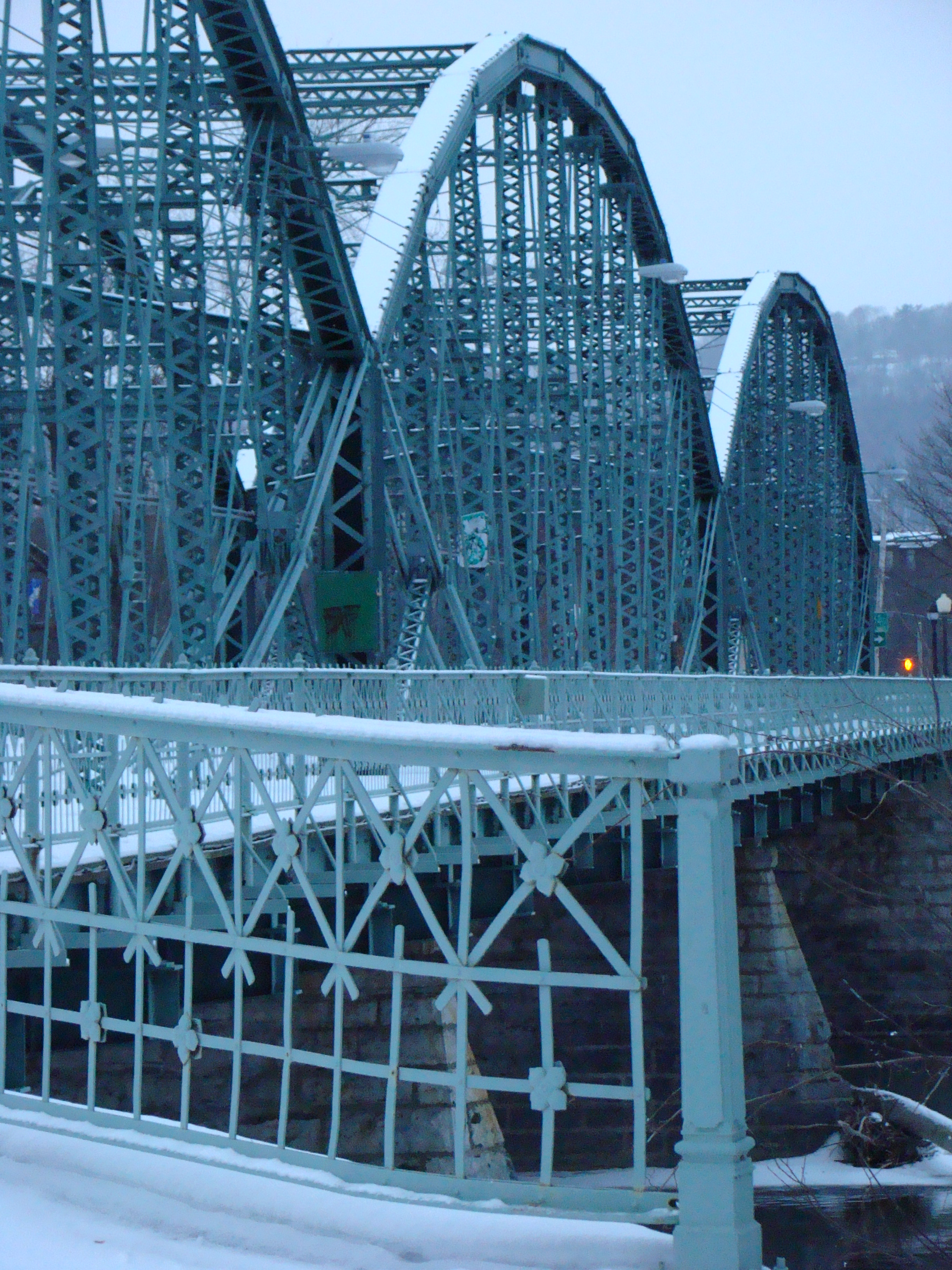 Image of the lenticular structure of the historic South Washington Street Parabolic Bridge in Binghamton, NY